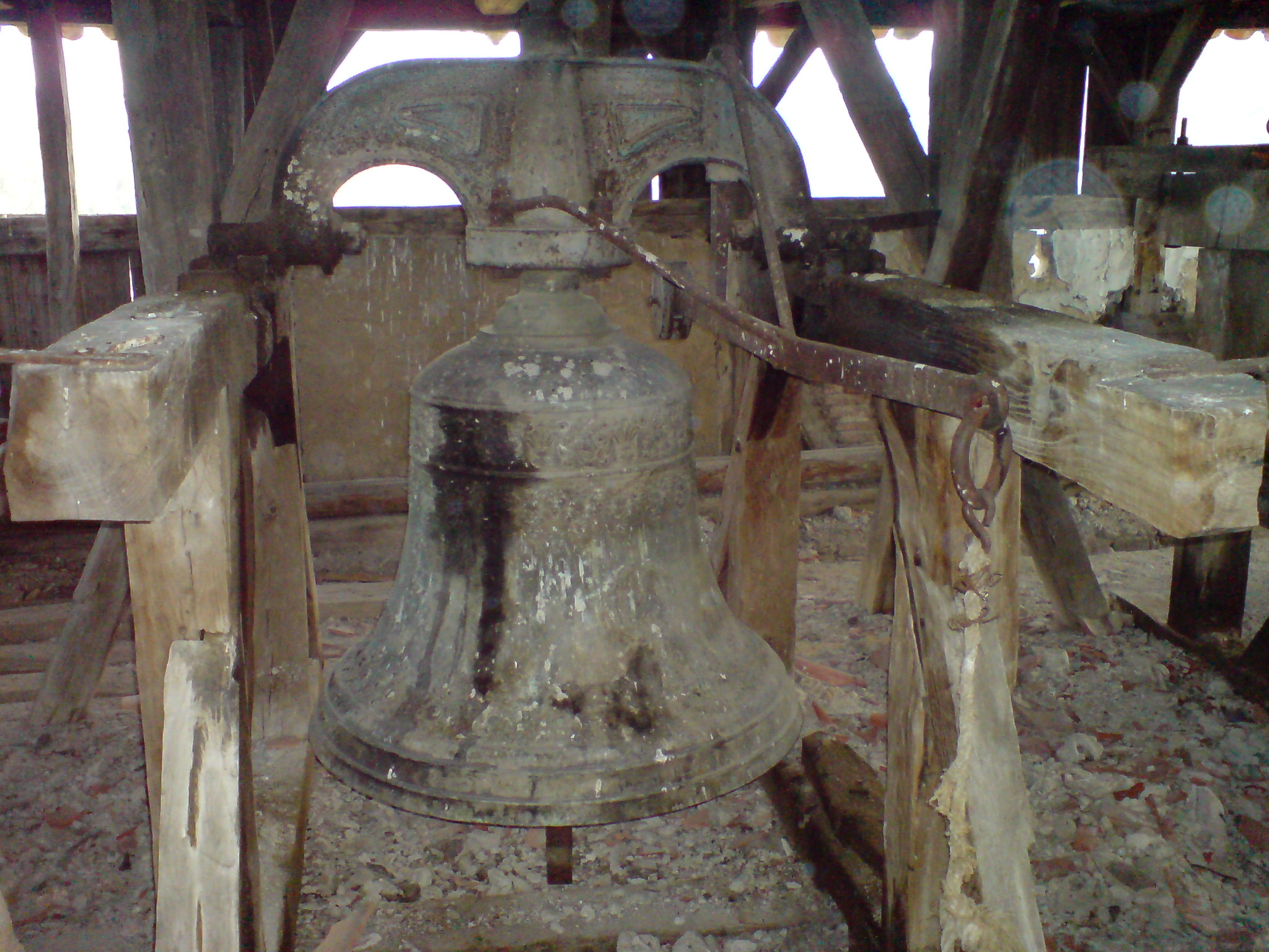 Fortress church of Iacobeni, Romania